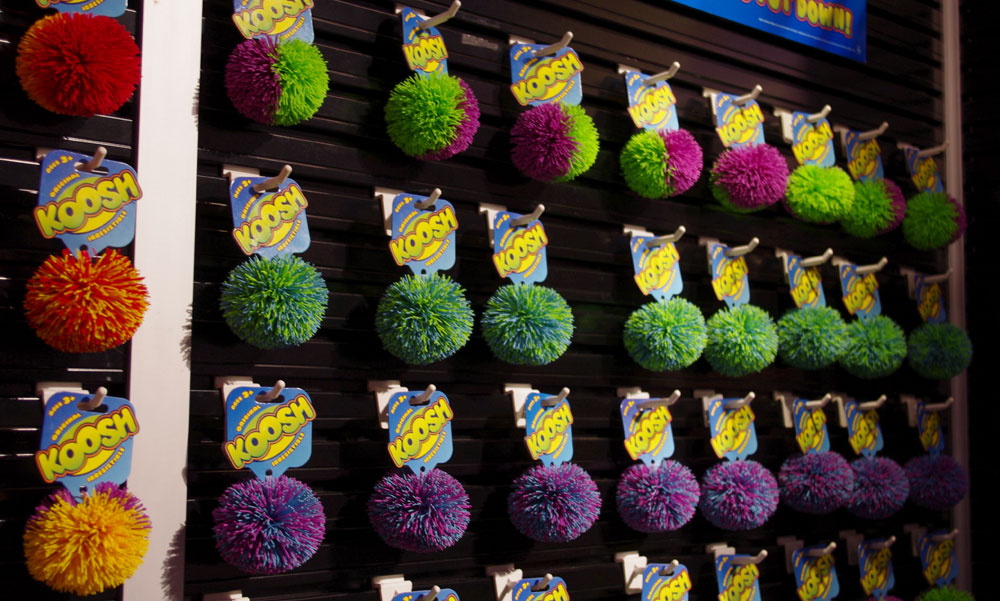 yes, they are back. Saw these at Toy Fair